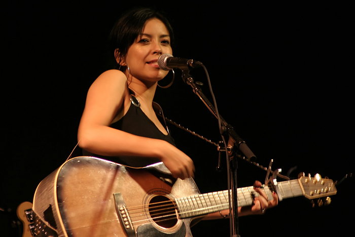 Emm Gryner belts out a tune at the Canada Day celebrations at Columbia Lake. I got so many shots of Emm, it was impossible to decide which to post. I just went with this one. :)